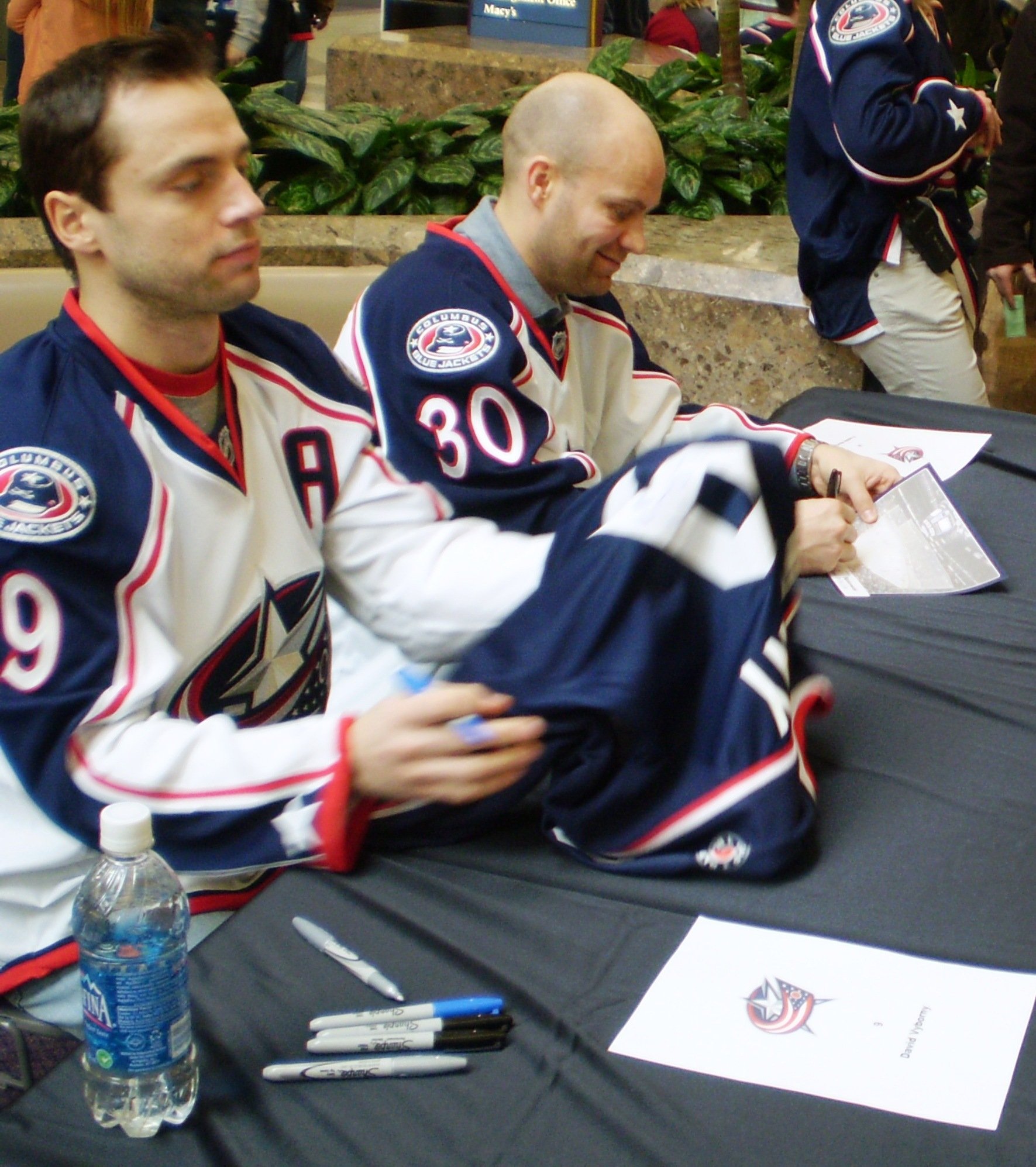 David Vyborny and Frederick Norrena at an Autograph Session